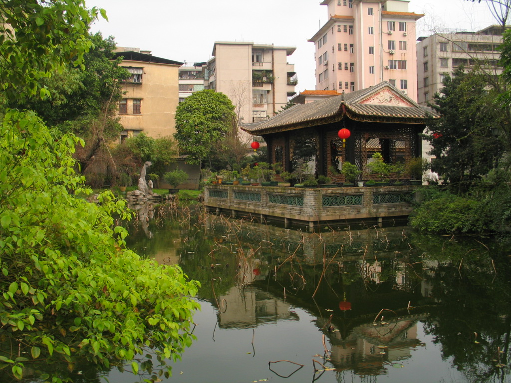 更多haier7917的中国古建照片/ more photos of ancient chinese architecture by haier7917：